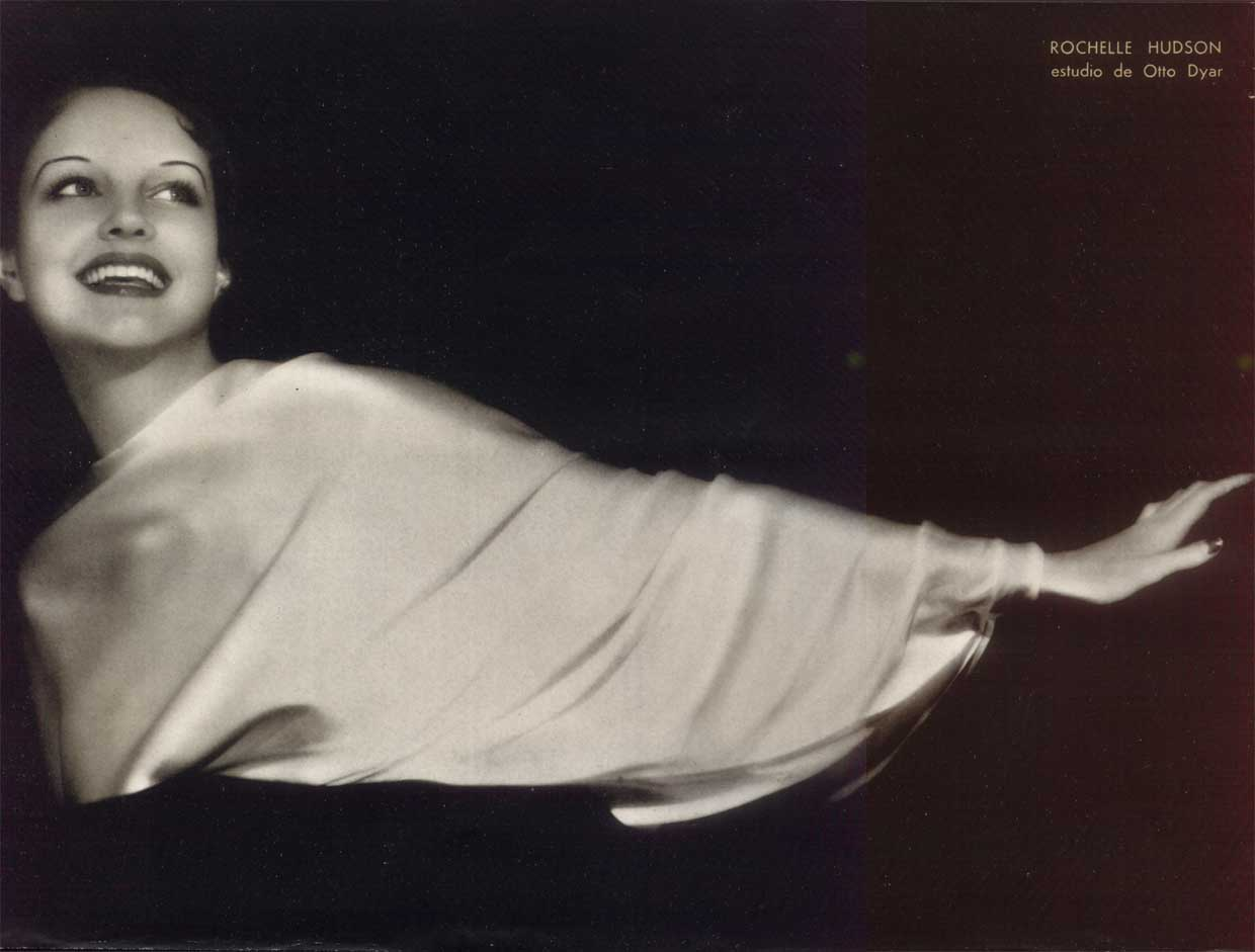 Publicity photo of Rochelle Hudson for Argentinean Magazine. (Printed in USA)